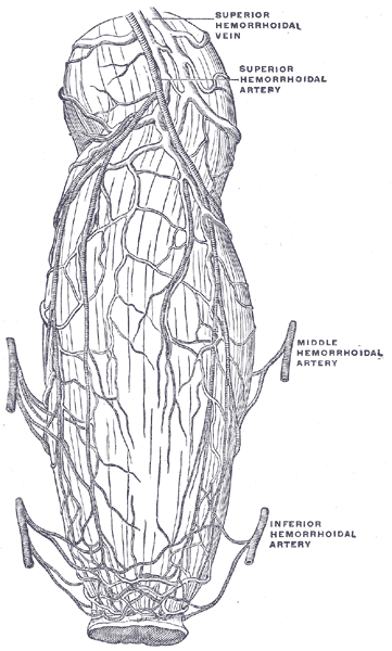 The bloodvessels of the rectum and anus, showing the distribution and anastomosis on the posterior surface near the termination of the gut. (Poirier and Charpy)